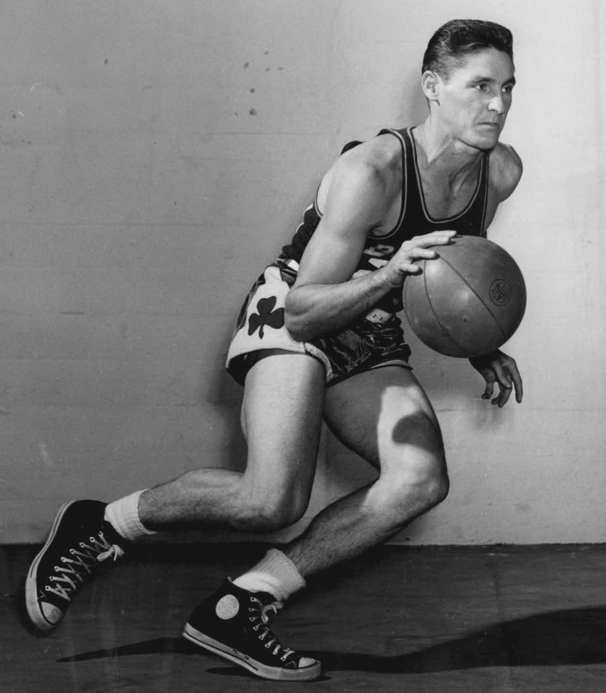 Professional basketball player Bill Sharman